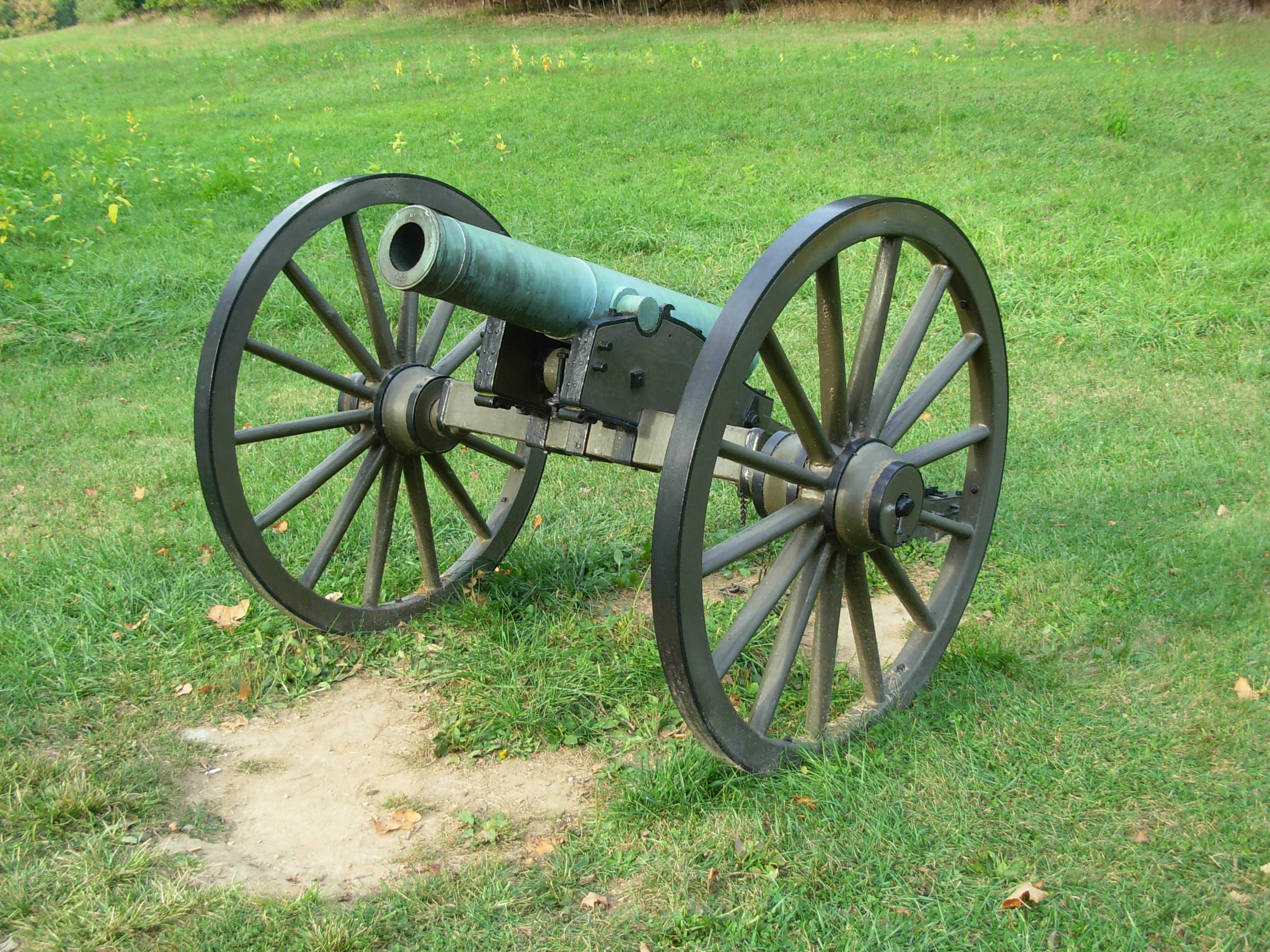 Artillery Memorial at the Antietam National Battlefield, in northwestern Maryland.